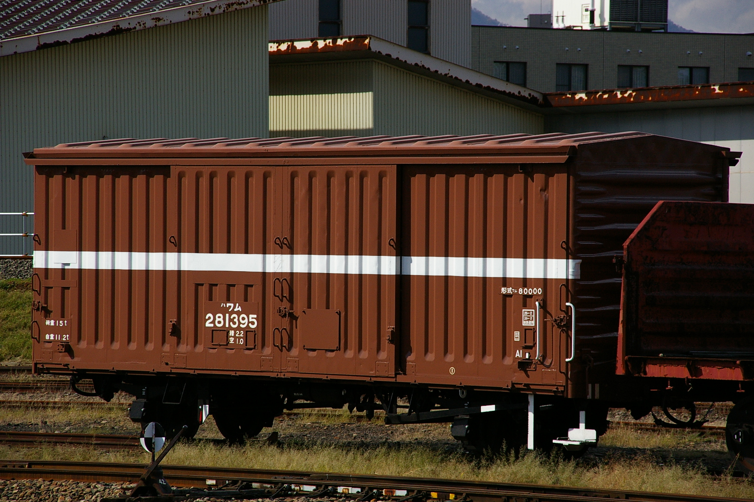 JR hokkaido WA MU 281395 in Naebo factry.